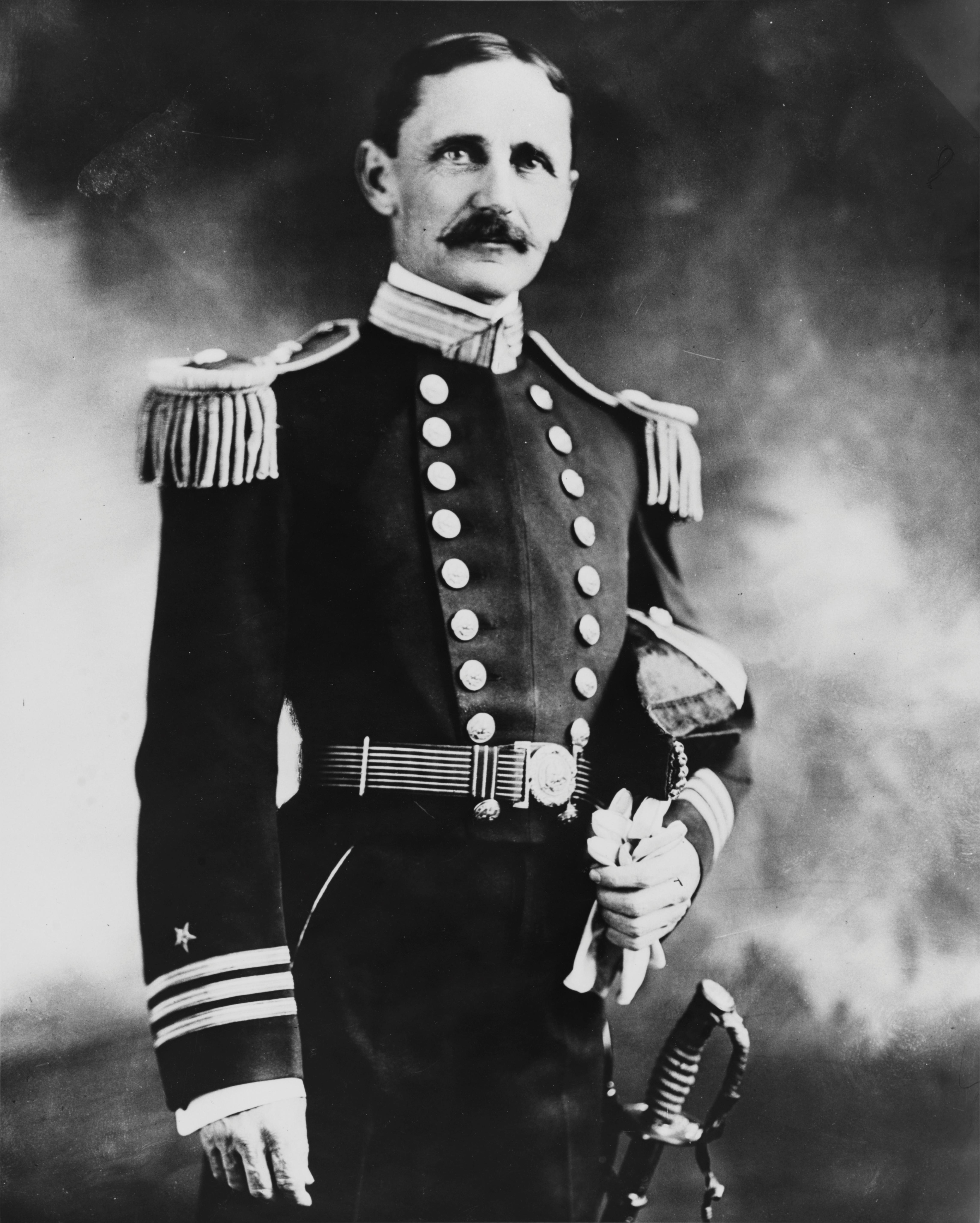 Cmdr. Richard H. Jackson